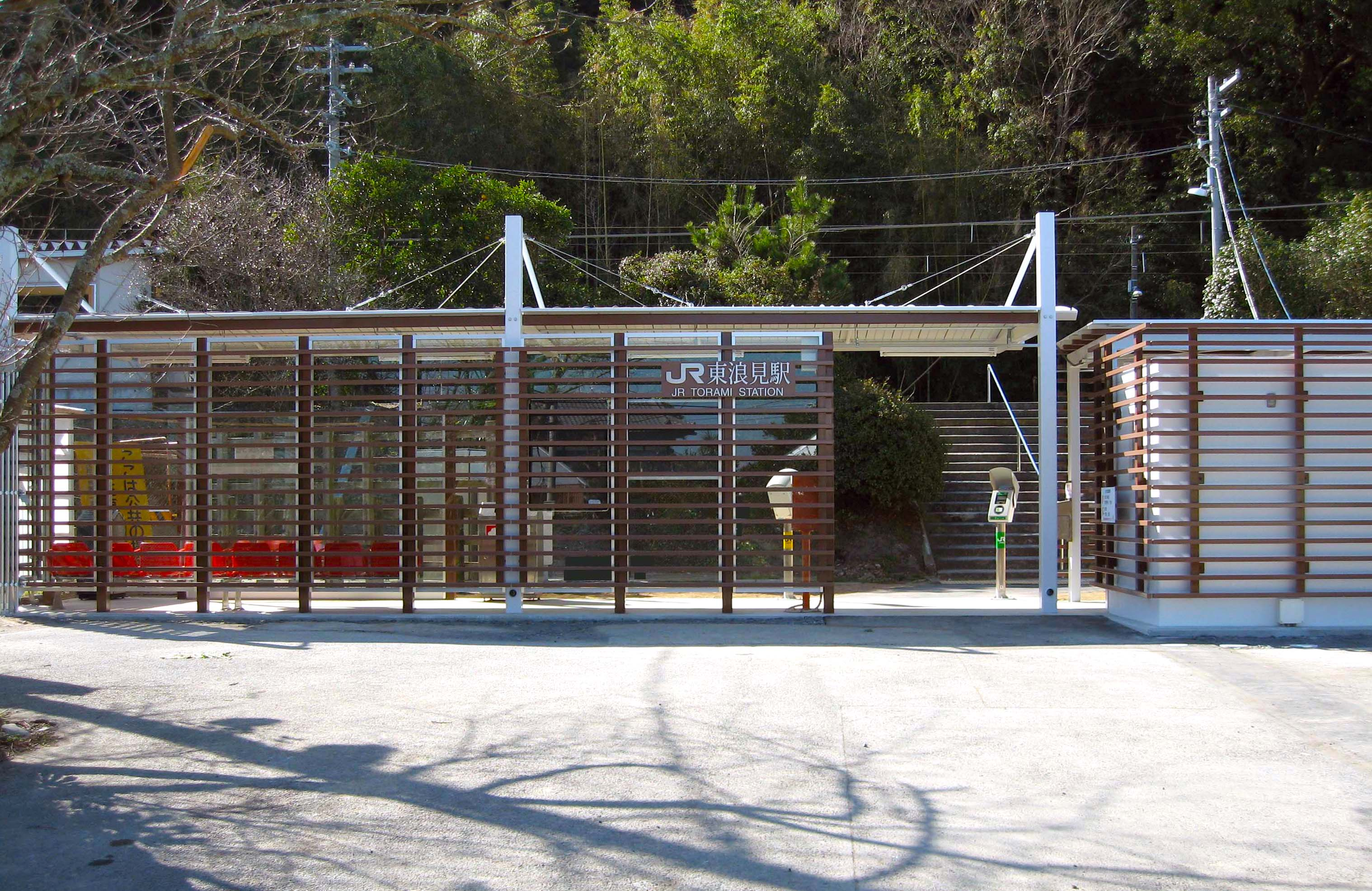 Torami Station, Sotobo Line, Chiba, Japan, 東浪見駅（2007年新装）